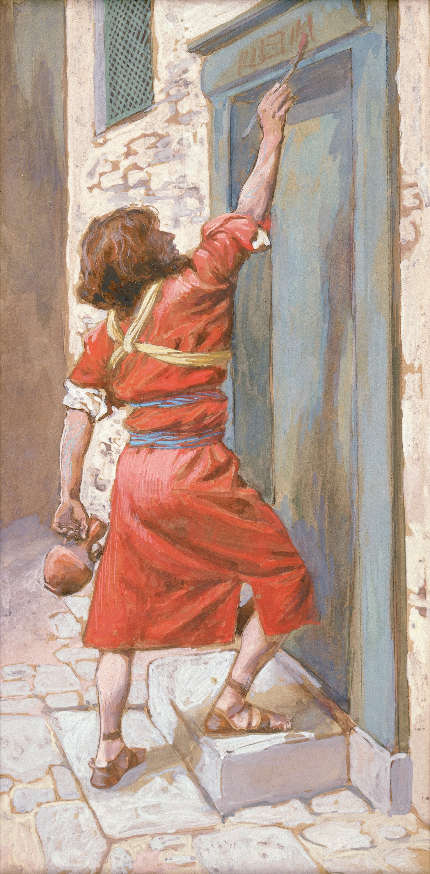 The Signs on the Door, c. 1896-1902, by James Jacques Joseph Tissot (French, 1836-1902) or follower, gouache on board, 9 3/8 x 4 1/2 in. (23.8 x 11.5 cm), at the Jewish Museum, New York